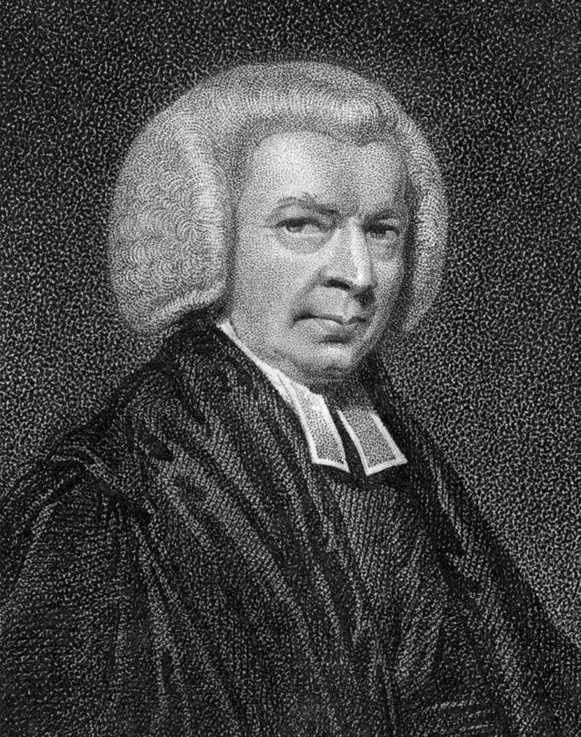 Thomas Haweis, engaving by E. Bocquet (active 1806-1849)[1] after a painting by Henry Edridge (1769-1821).